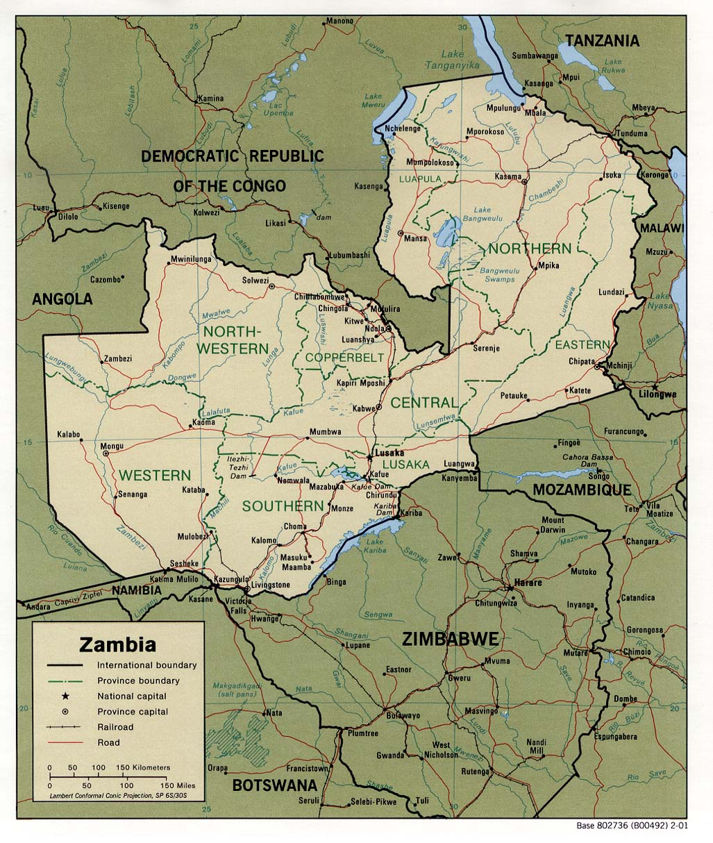 Transport system in Zambia, 2001.